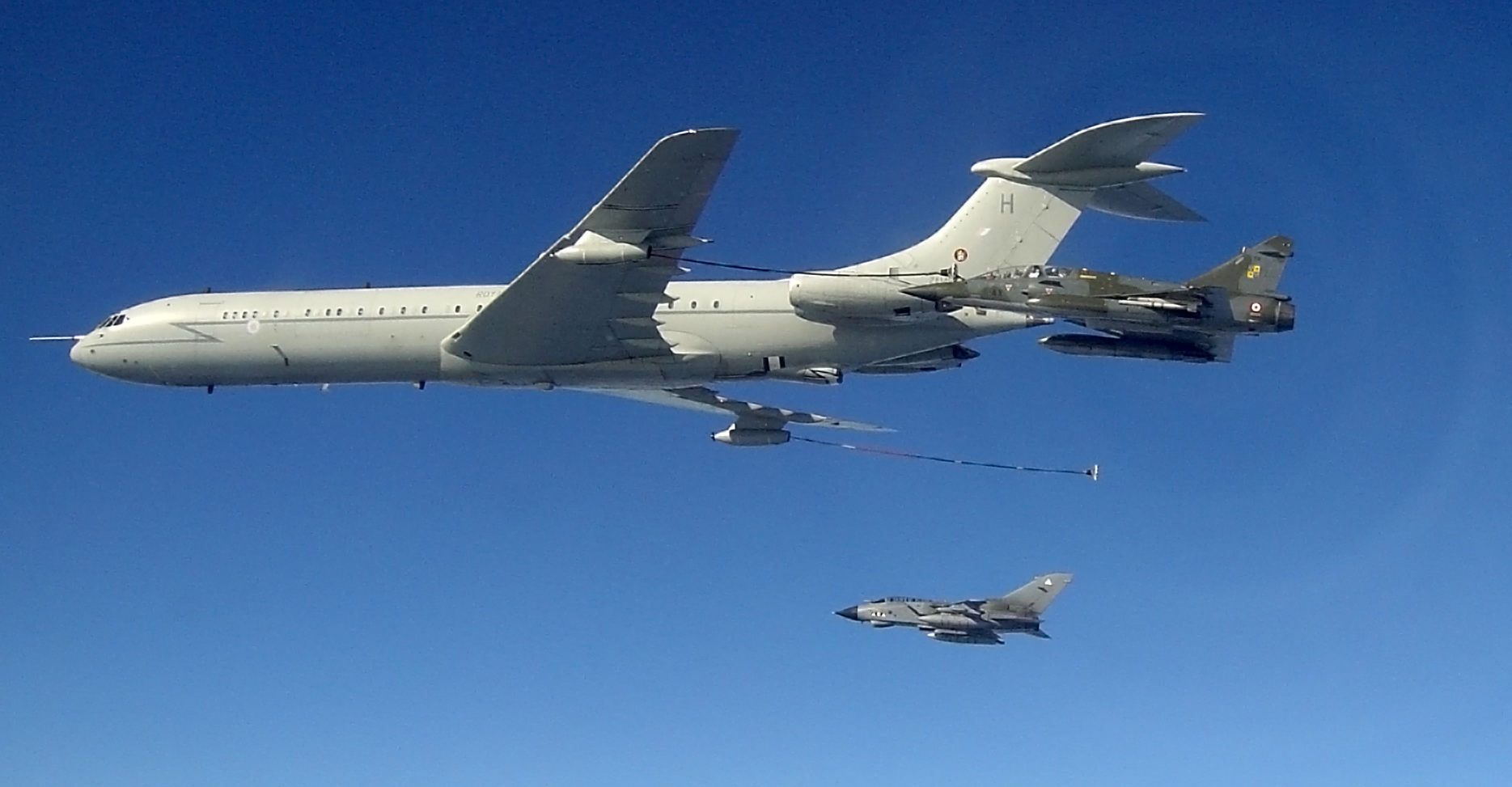 Vickers VC-10 in aerial refuelling exercise